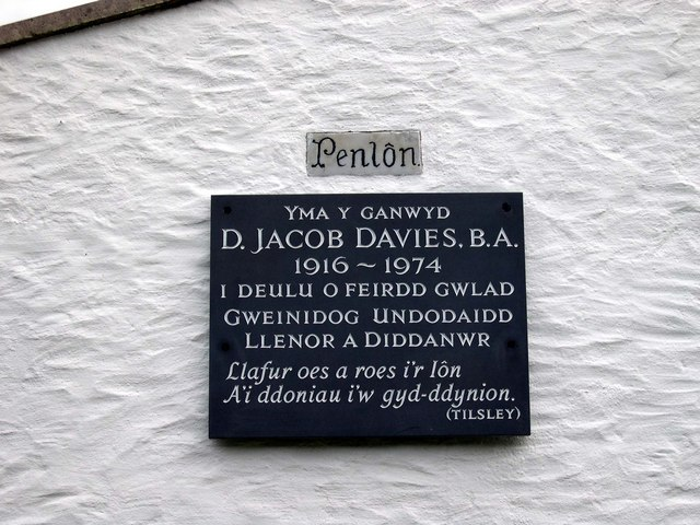 D.Jacob Davies.B.A. Famous Welsh Bard lived at Penlon